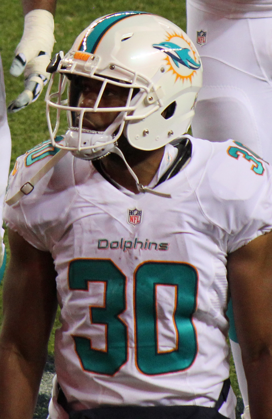 Daniel Thomas, a player on the National Football League.